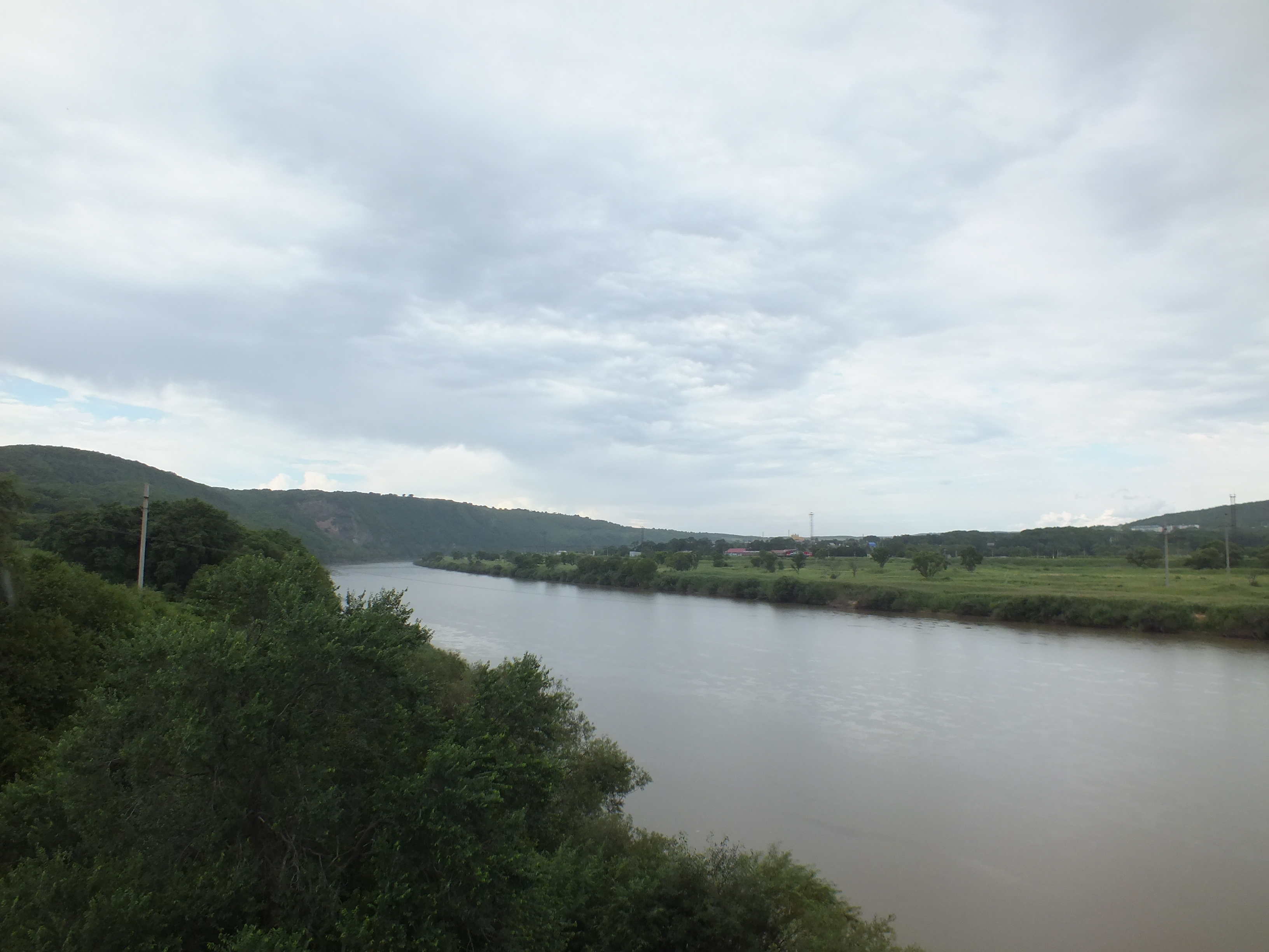 Terekhovka Primorskiy kray